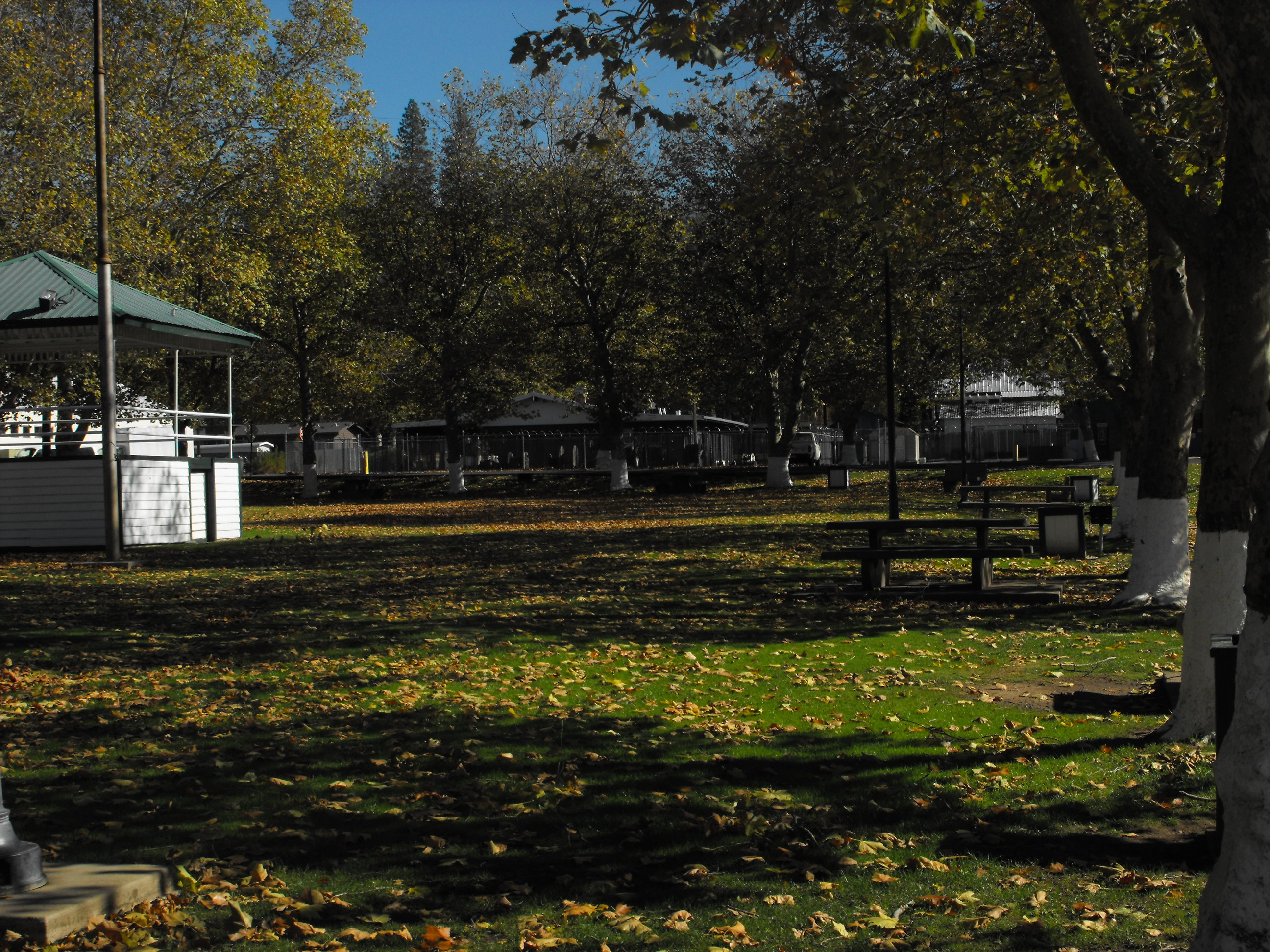 Tuolumne City, Downtown Park